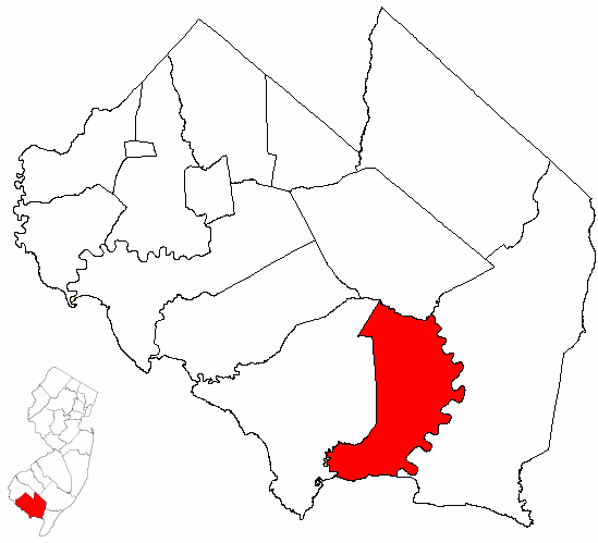 Map of Cumberland County highlighting Commercial Township